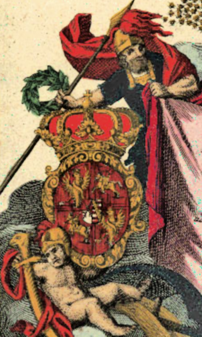 Coat of arms of the Polish-Lithuanian Commonwealth (circa 1739), between baroque war deities.Coat of arms in times of Saxon dynasty rule. [1] [2]Escutcheon:Fields 1-4, Polish white eagle.Fields 2-3, Lithuanian chasing knight.Inescutcheon:Field 1, The black crossed swords on red-white field which was the symbol of the Electors and High Marshals of the Holy Roman empire.Field 2, Seal of the Saxon dynasty (currently Coat of arms of Saxony).Modern example in large size: Image:Blason Auguste II de Pologne (1670-1733).svg.